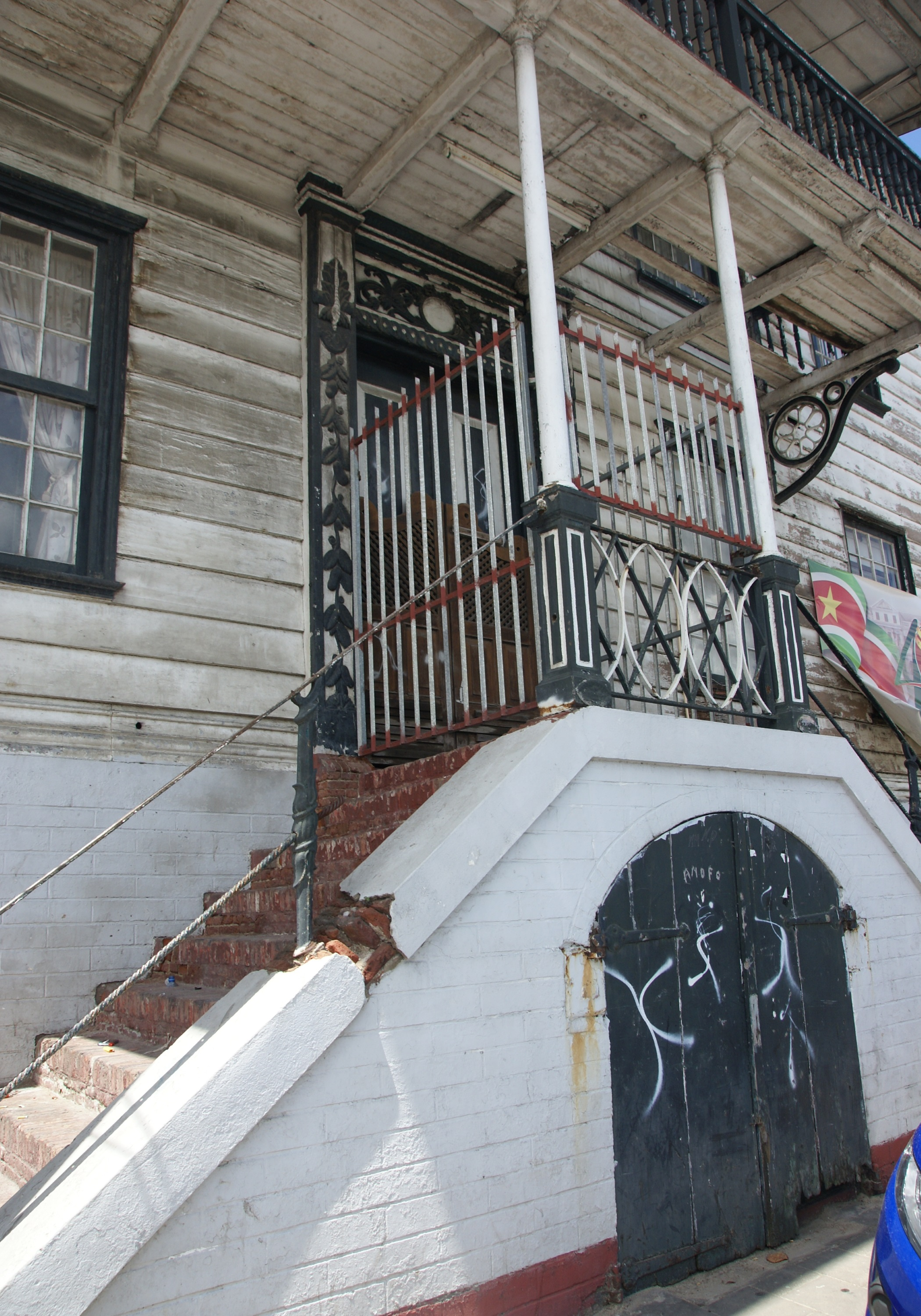 Waterkant 30, Paramaribo, Surinam. Entrance.